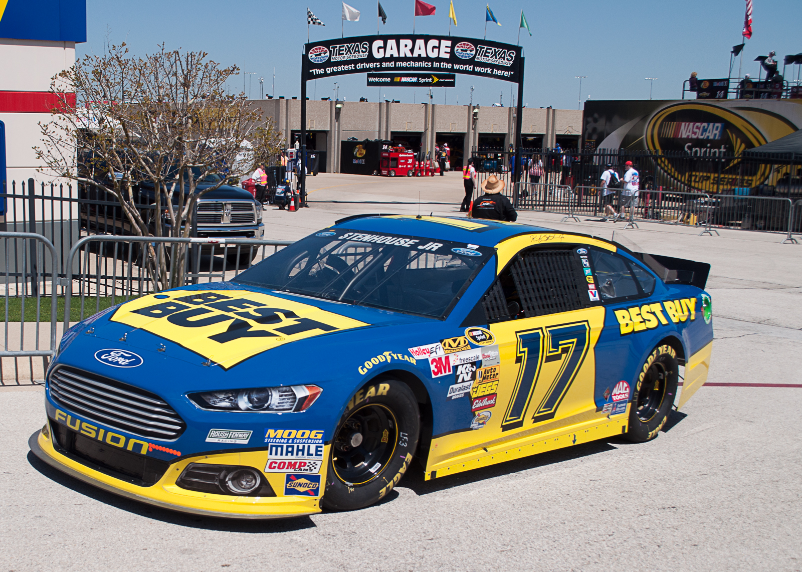 Ricky Stenhouse Jr. drives the No. 17 Roush Fenway Racing Ford out of the garage at Texas Motor Speedway during practice for the 2013 NRA 500.